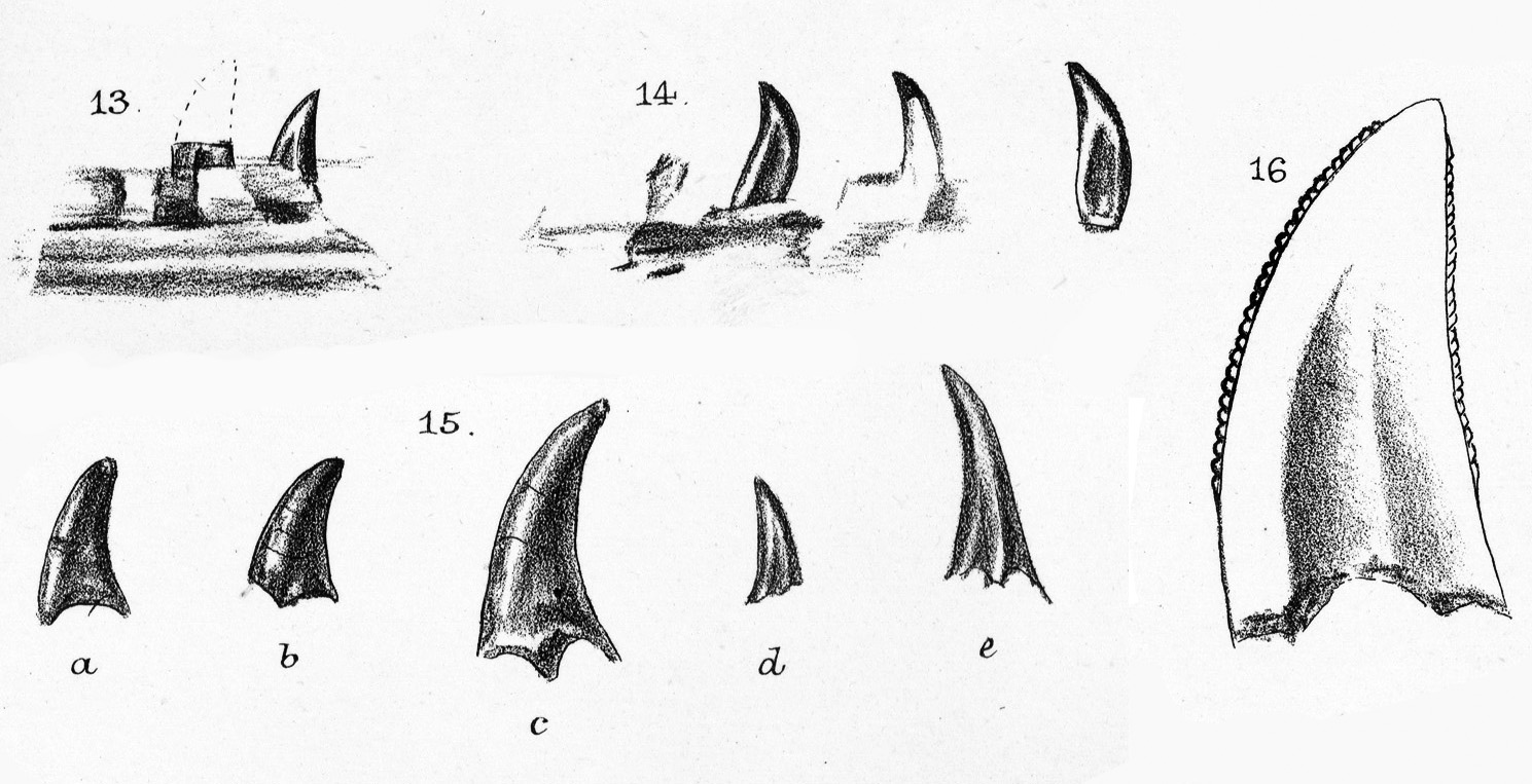 Genus—Nuthetes. (Lacertilia). Fig. 13 and 14. Portions of mandible and teeth of Nuthetes destructor. Fig. 15. Five detached teeth of do. Fig. 16. Side view of crown of a tooth of do., magn.